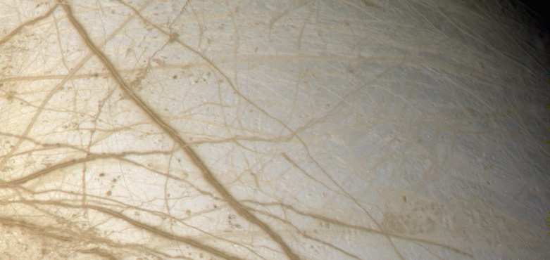 Surface of Europa; image by the Galileo spacecraft